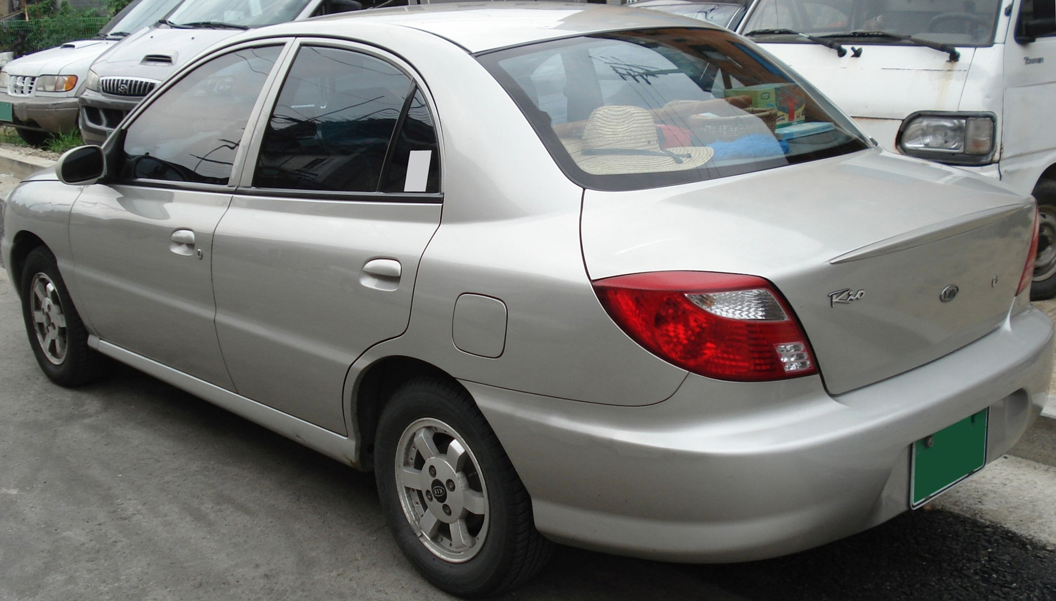 Kia Rio